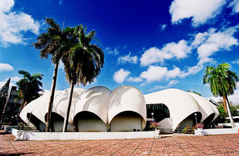 sic_psu_hatyai.jpg